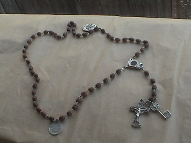 My Rosary. Source:en:User:Blind Man Walking original picture. --89.148.43.32 10:19, 9 June 2007 (UTC)--89.148.43.32 10:19, 9 June 2007 (UTC)--89.148.43.32 10:19, 9 June 2007 (UTC)